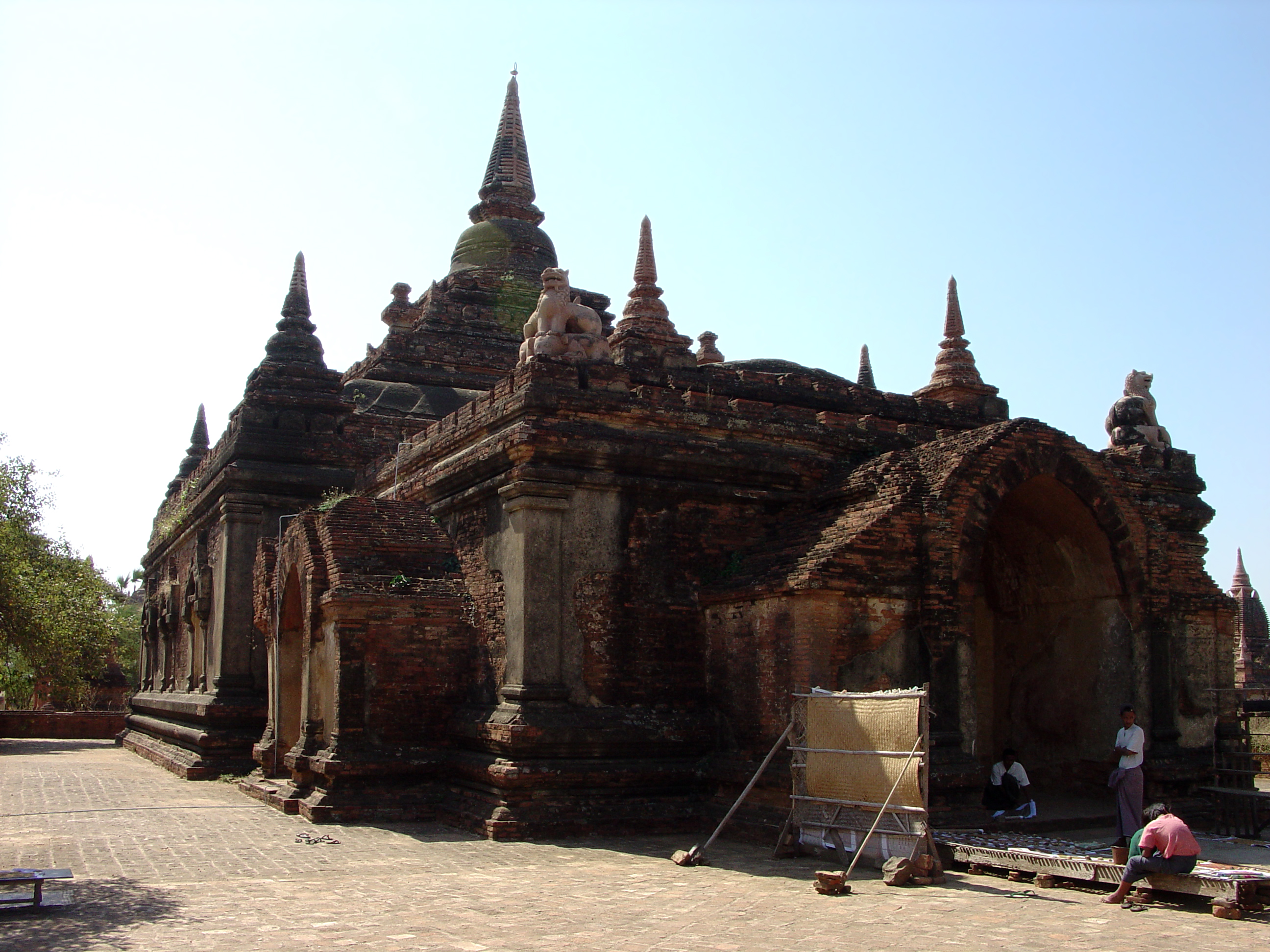 Abeyadana is named after Kyanzittha's queen. It is similar to Nagayon in style, and according to Strachan it was built slightly earlier. The ogival arch of the entrance would originally have been topped by a single rather than a double pediment, and the main tower and finials are in the form of a stupa. Like other temples, the exterior was originally stuccoed. Restored lions perch on the corners, as at the small shrine nearby.